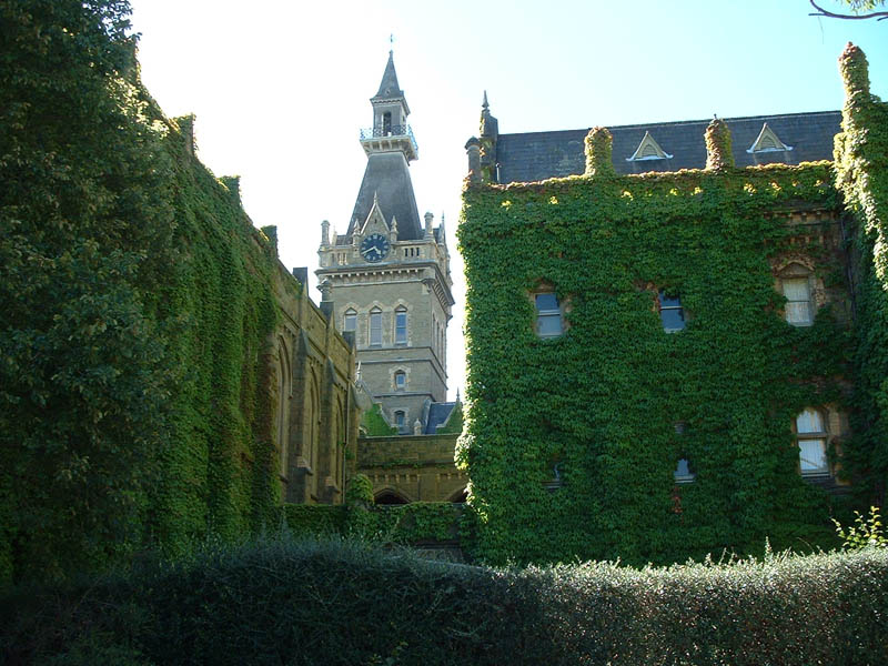 View from over back fence of Ormond College, The University of Melbourne